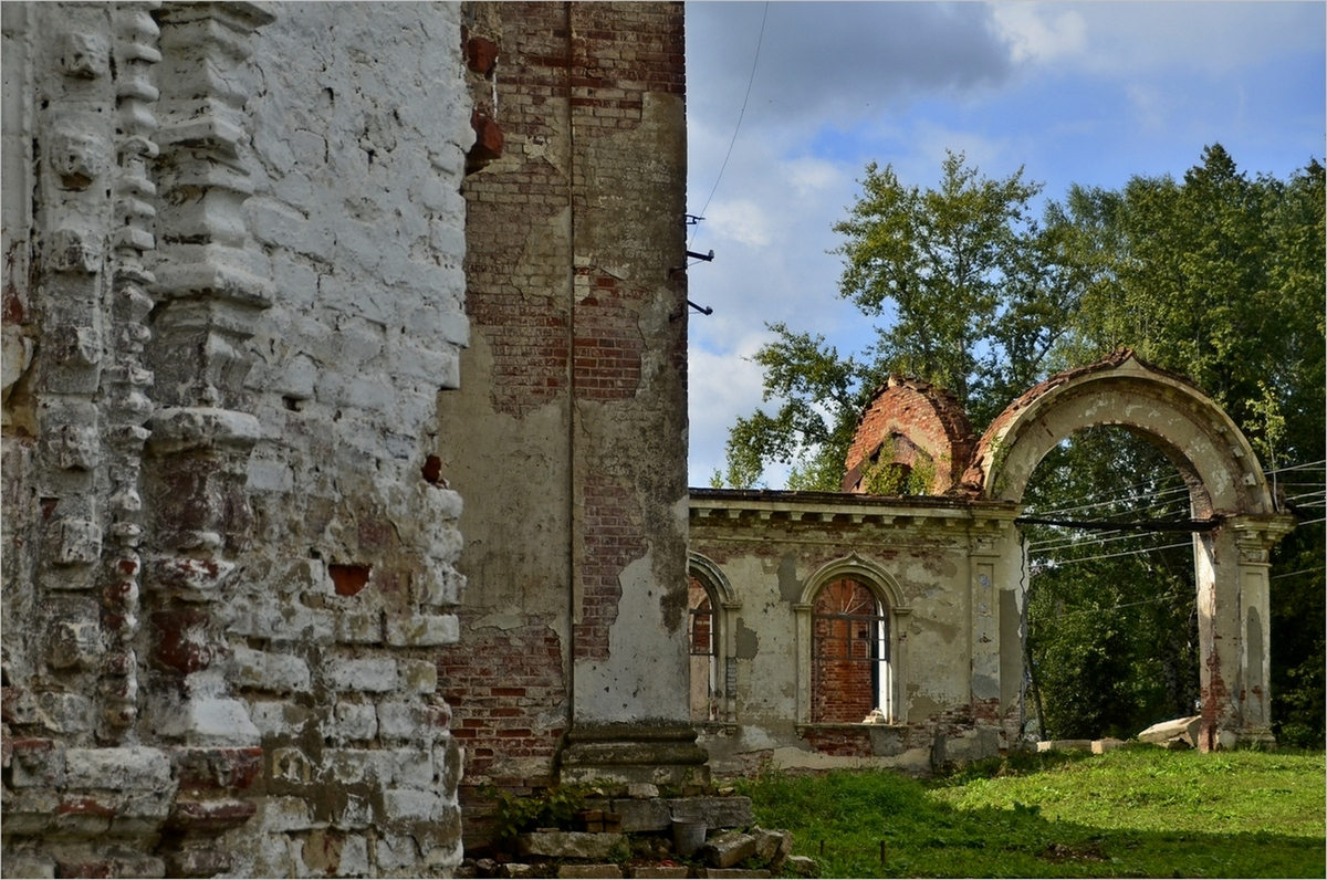 Никольский собор в г. Нолинске Кировской области